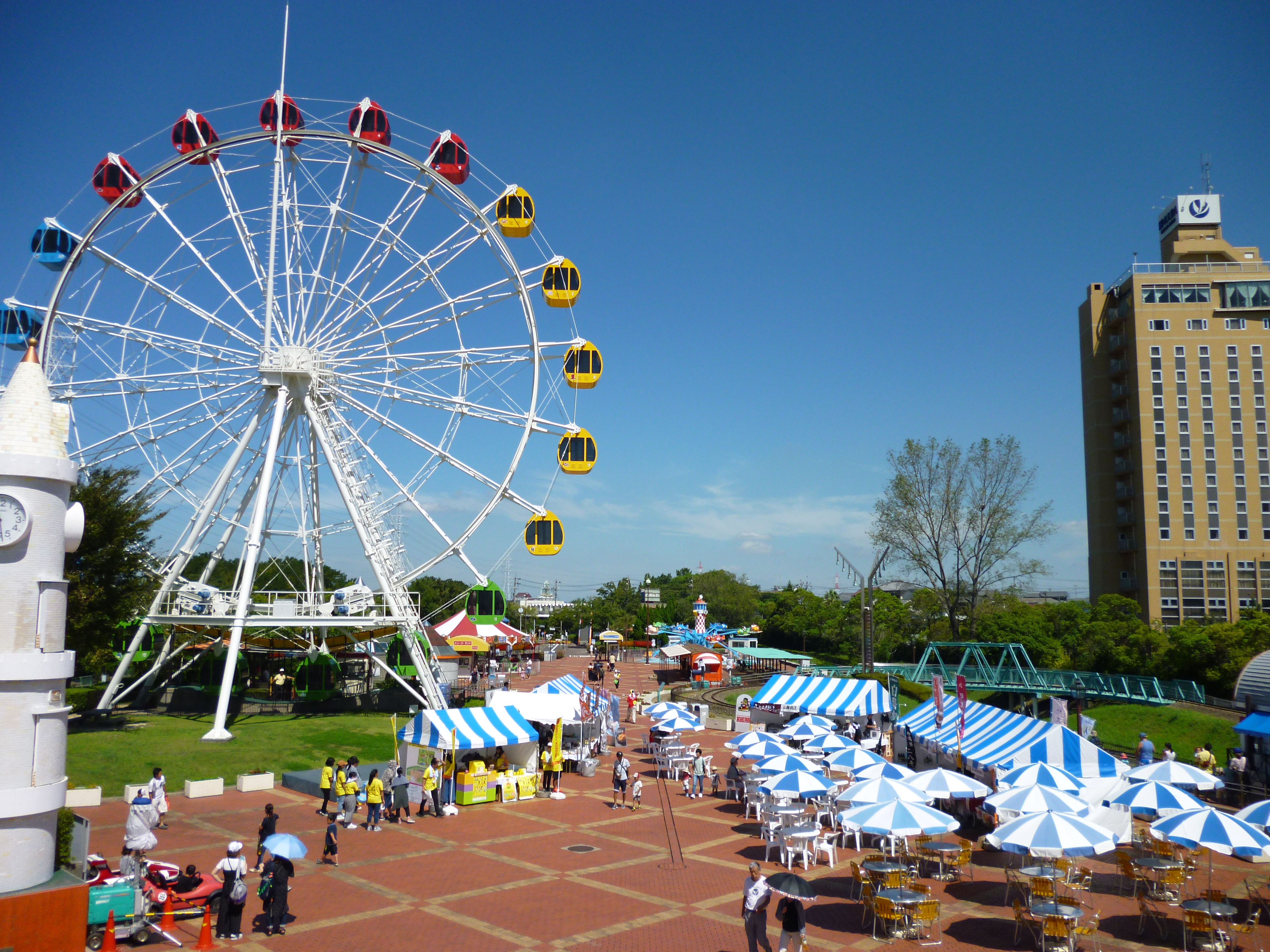 Hekinan City Akashi Park in Hekinan, Aichi, Japan.